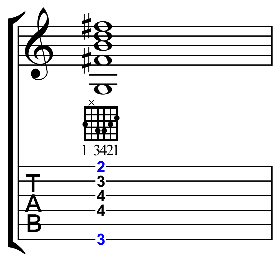 Diagonal barre chord: major seventh chord on G. The first finger fingers both the second fret on the first four strings and the third fret on the sixth string.